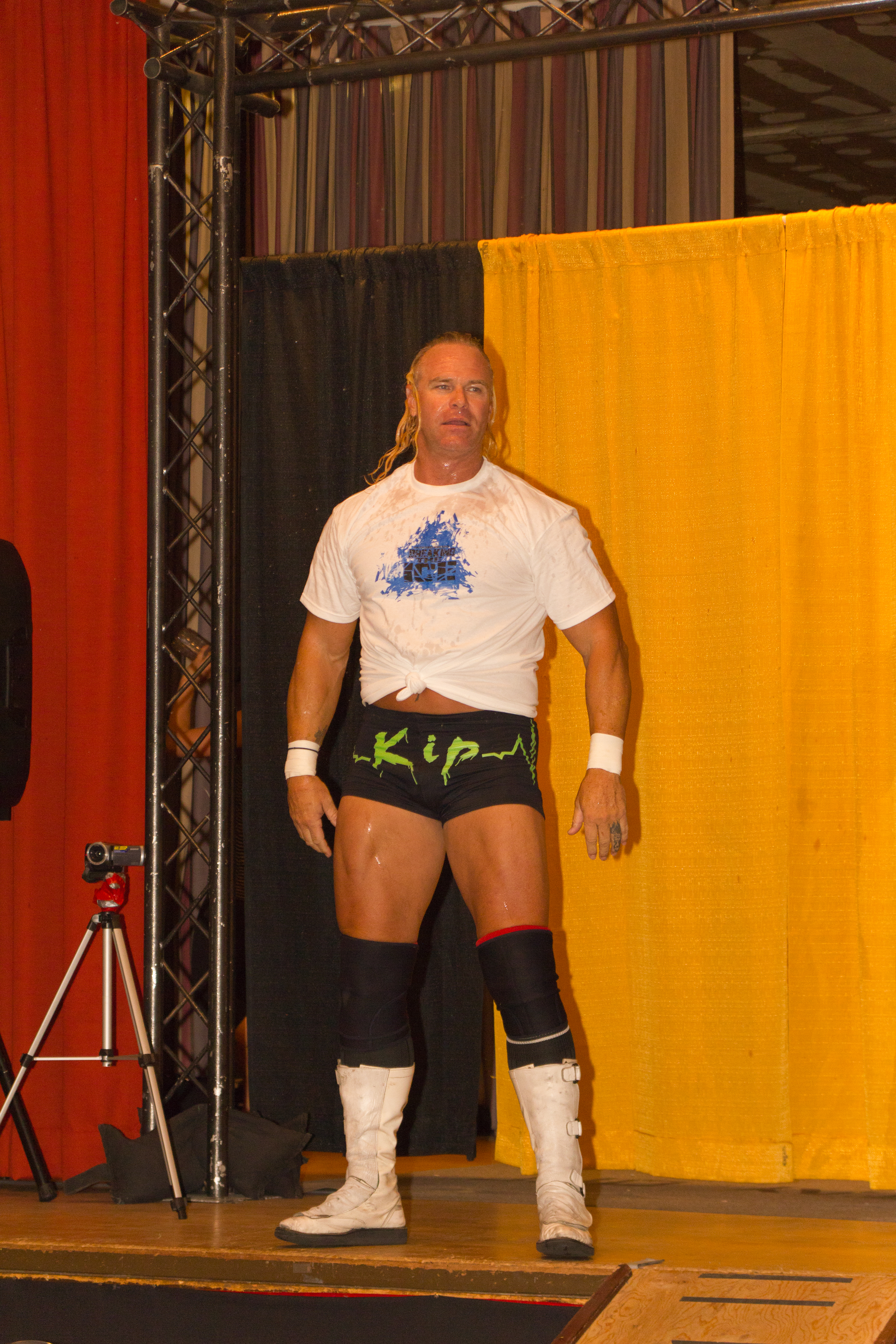 Professional wrestler Billy Gunn.